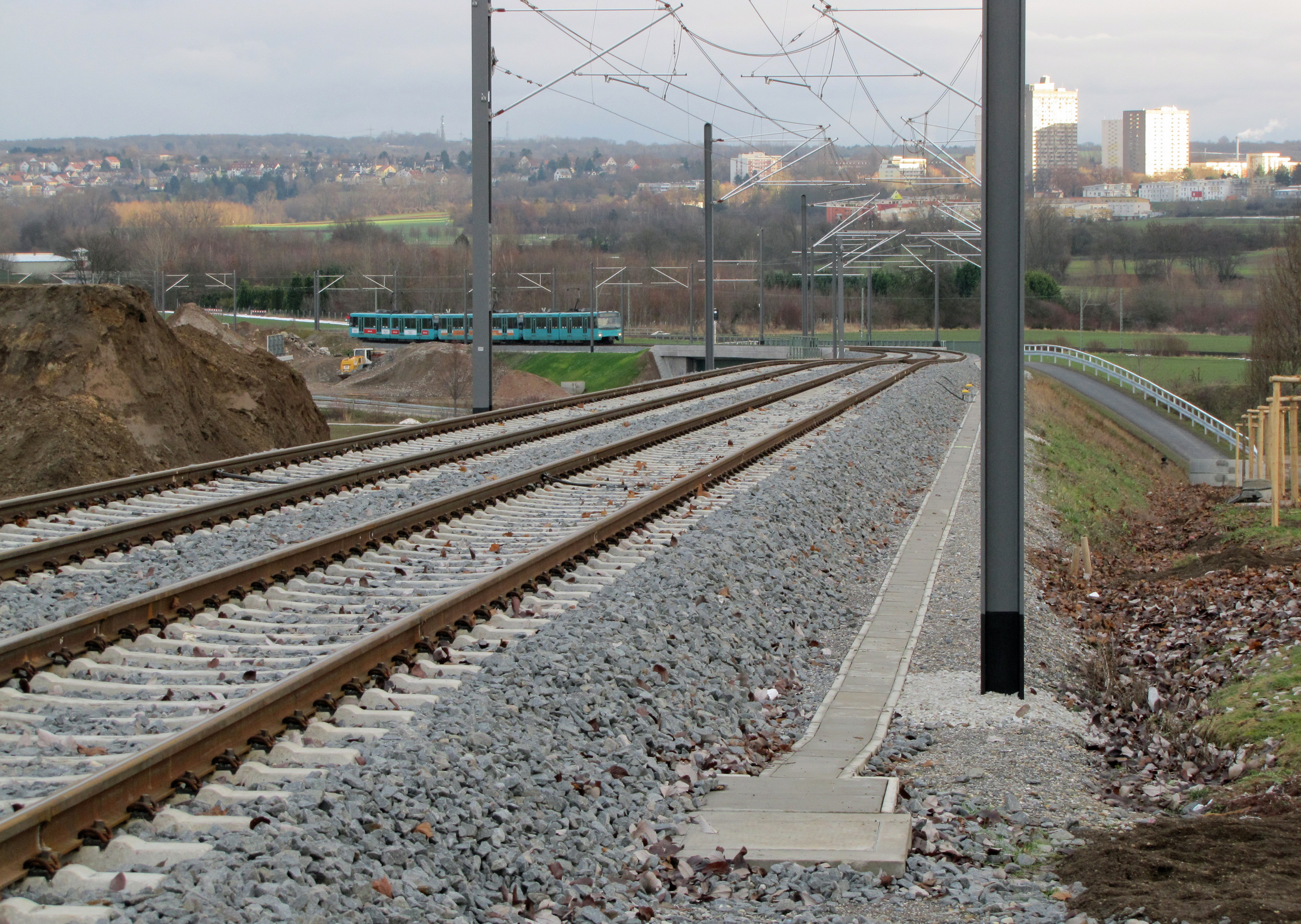 Train of "U 9", comming from terminus Frankfurt-Niedereschbach to Frankfurt-Kalbach-Riedberg.